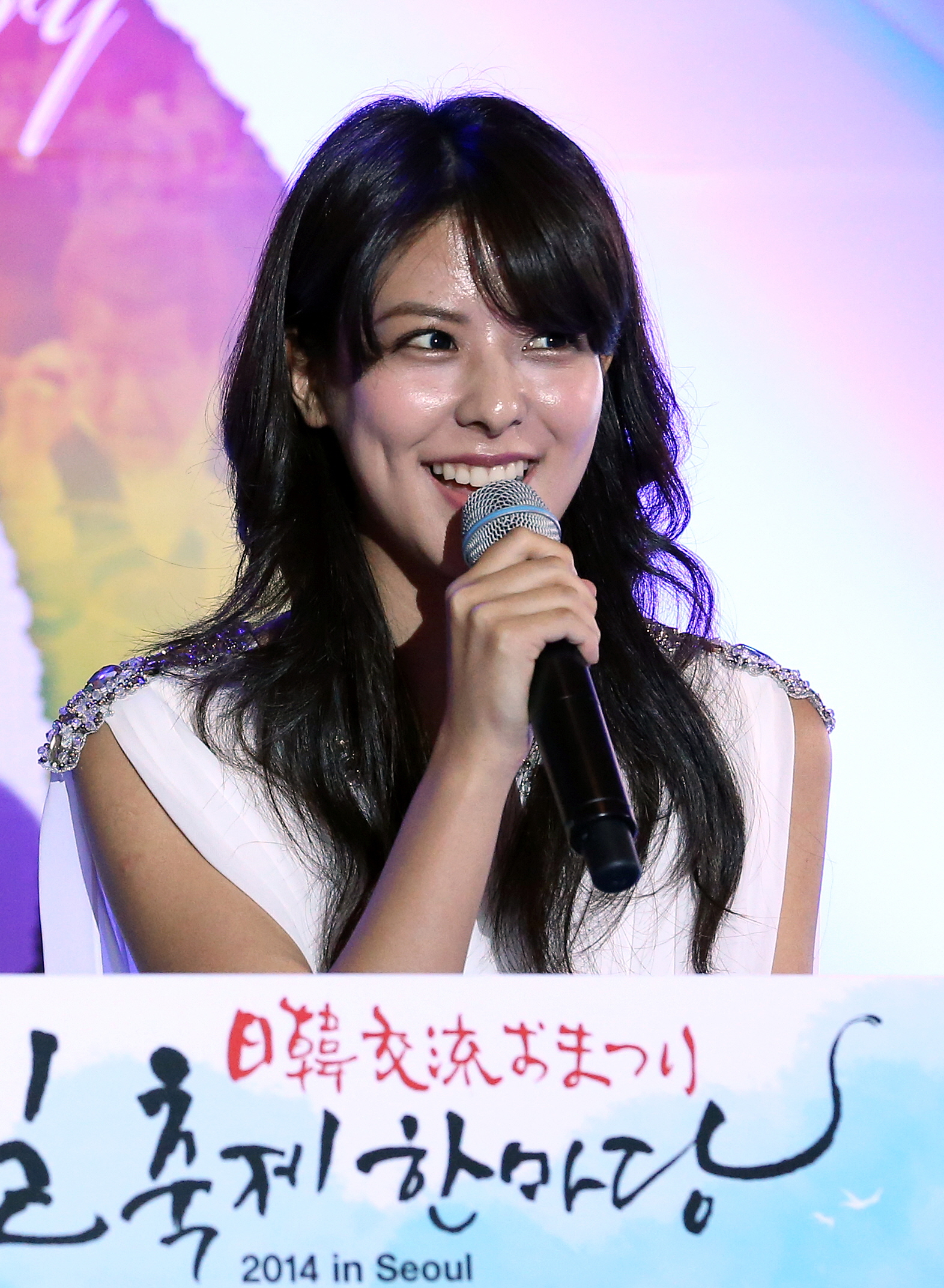 Mina Fujii at Korea-Japan Festival 2014 in Seoul